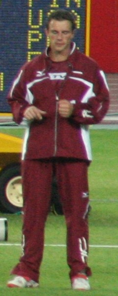 World Athletics Championships 2007 in Osaka - participants in the final of the men's Javelin competition